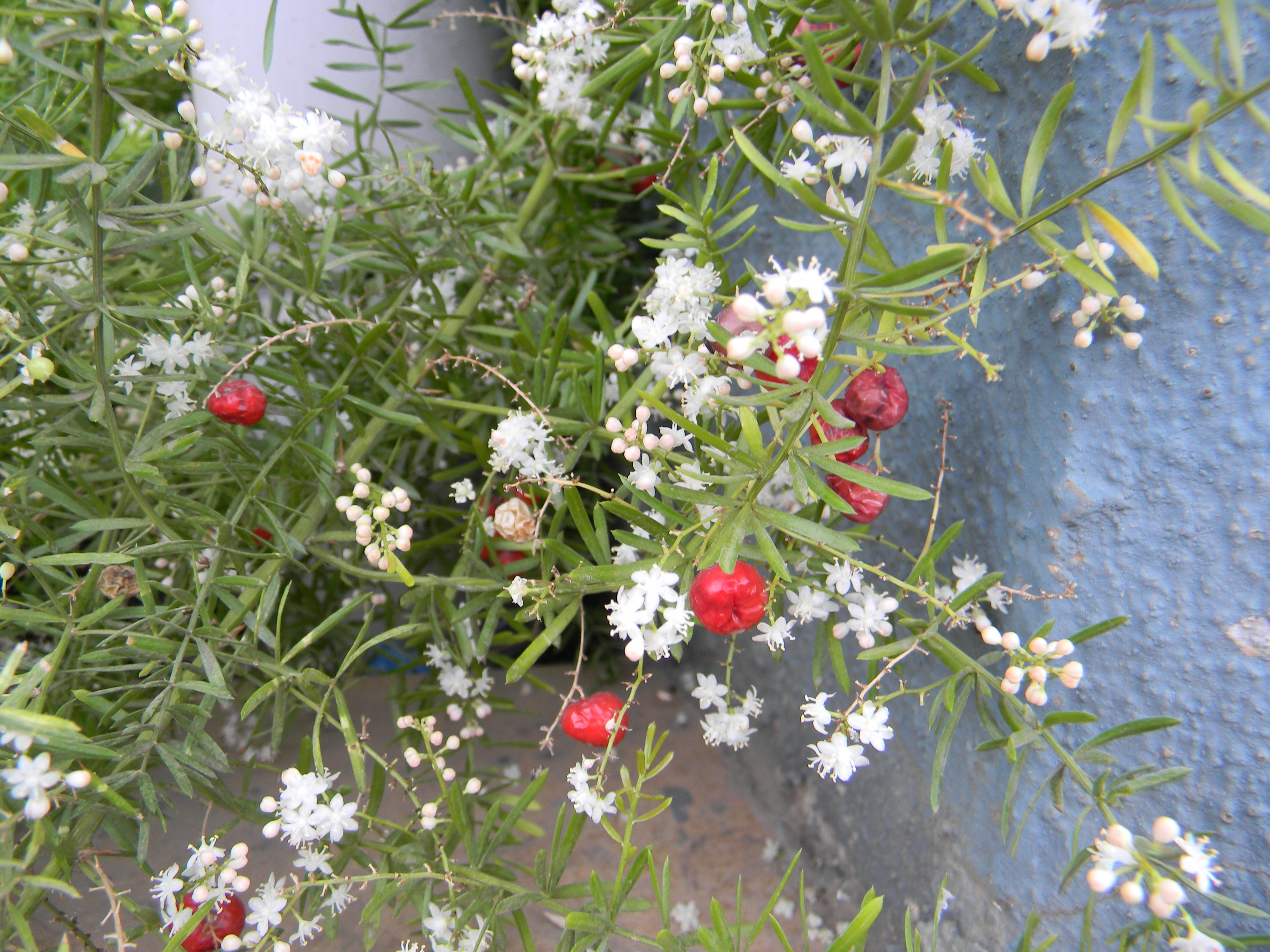 This is a photograph of Asparagus racemosus, which is called 'shatavari'in hindi.